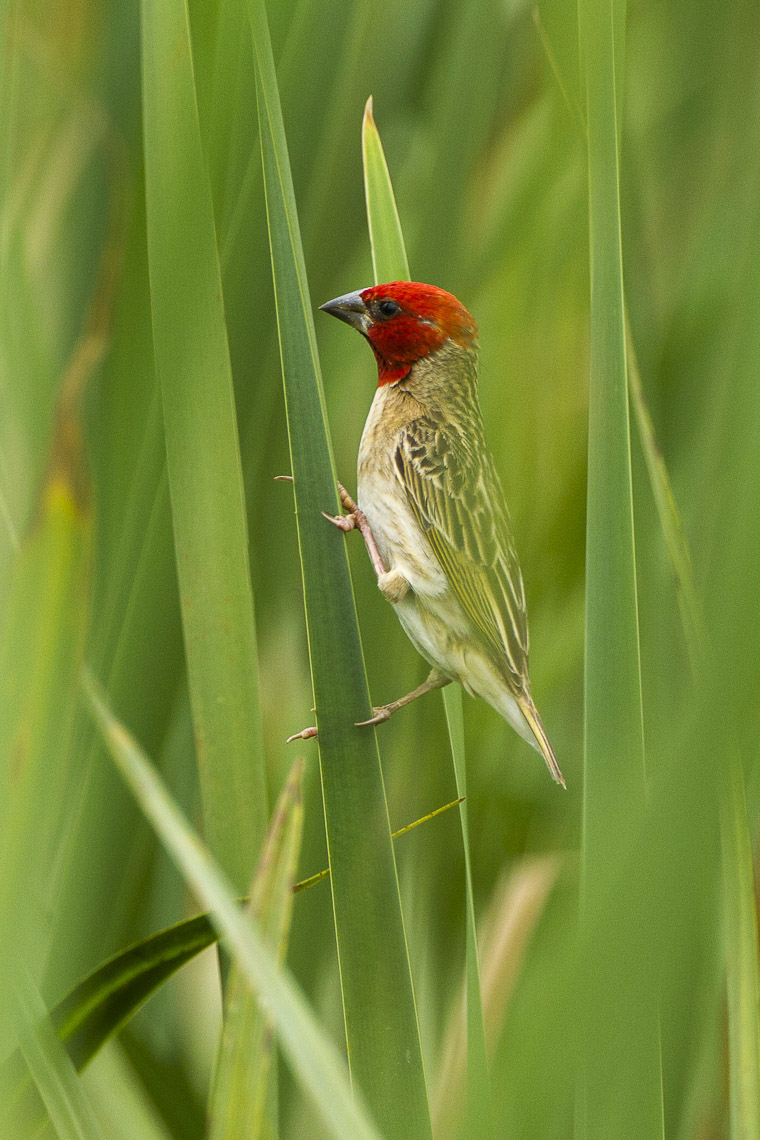 Red-headed Quelea - Natal - South Africa_S4E7723